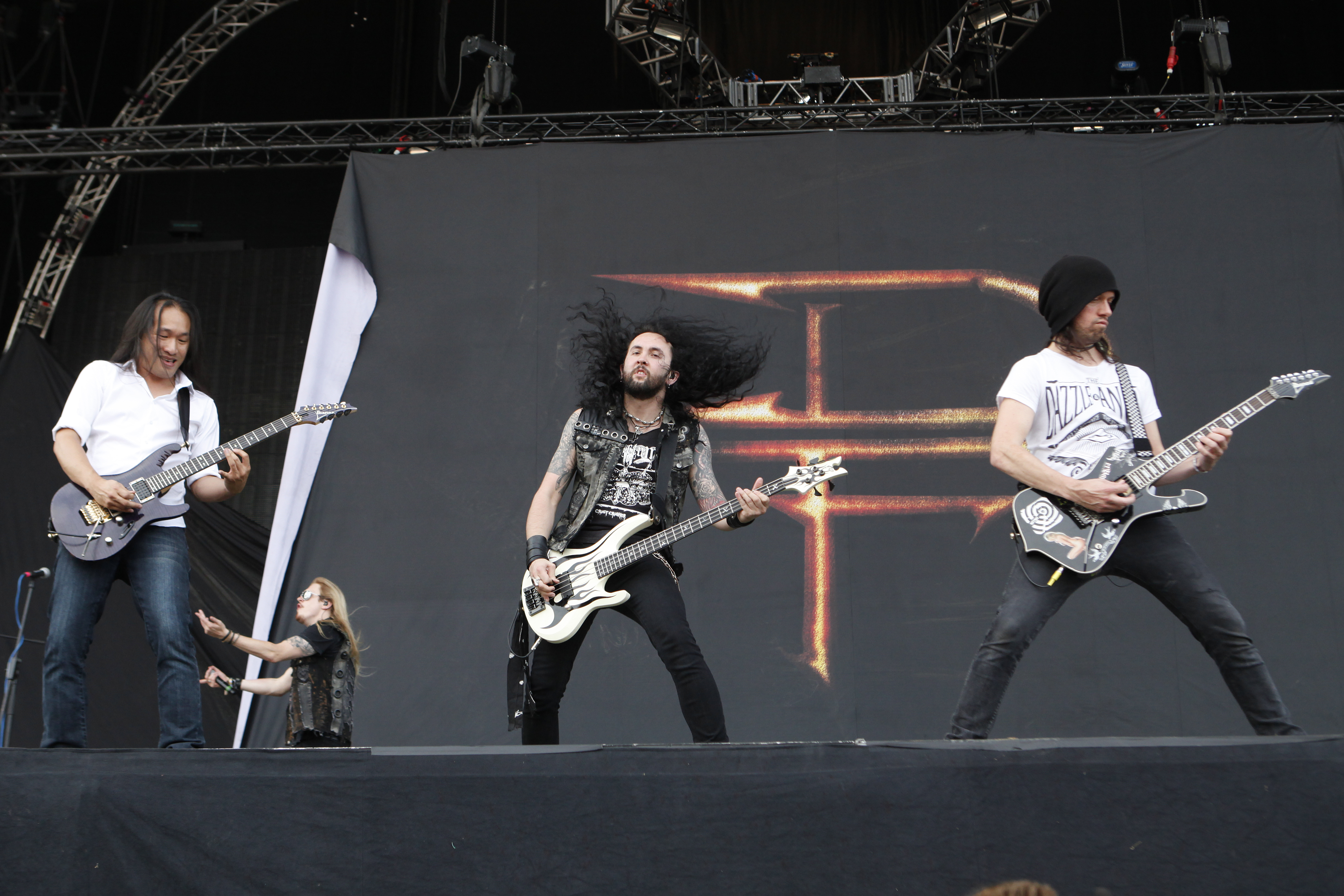 Herman Li, Frédéric Leclercq and Sam Totman of DragonForce at Nova Rock-Festival 2013.